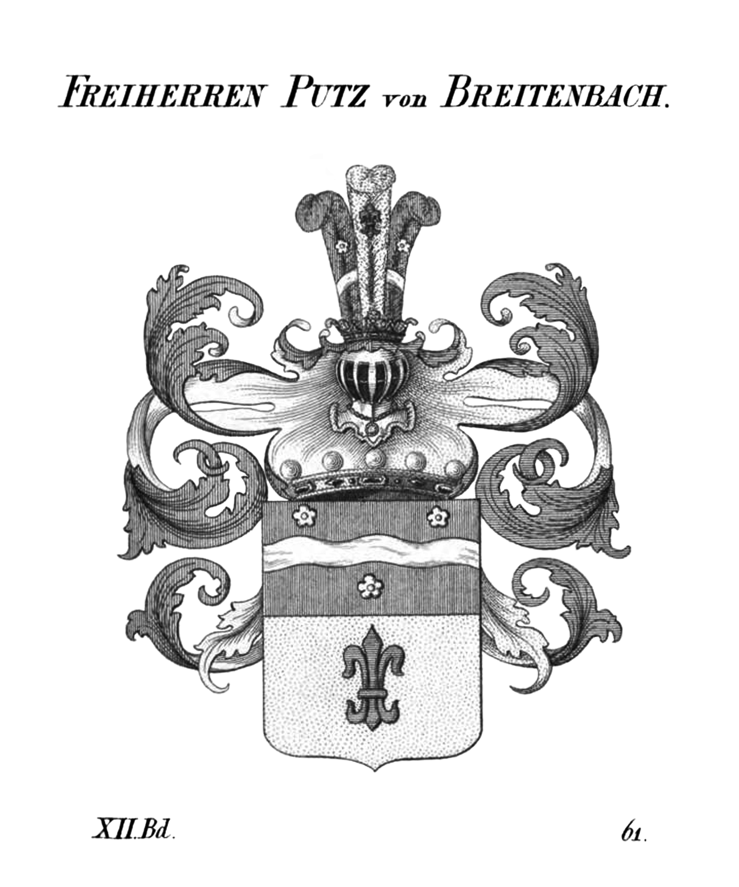 Coat of arms of Putz von Breitenbach (Barons)